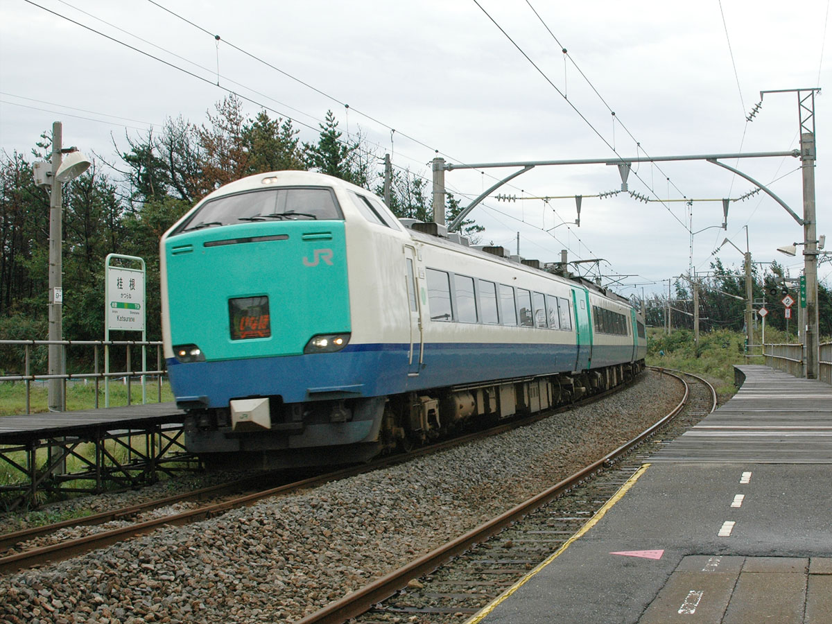 JR East 485-3000 series EMU on an Inaho limited express service